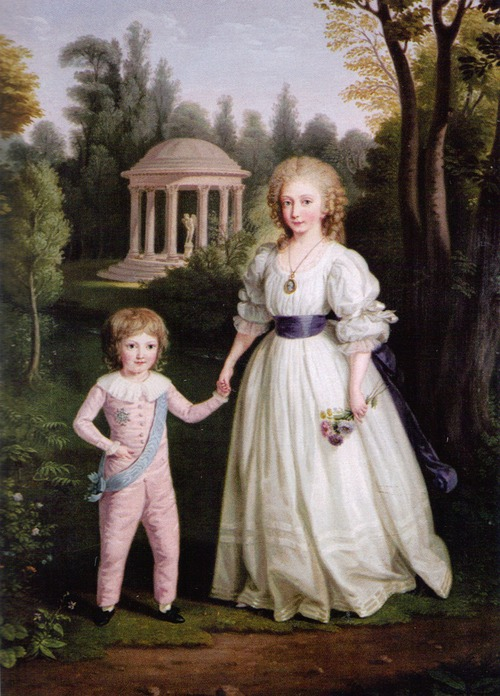 Marie Therese and Louis Charles of France